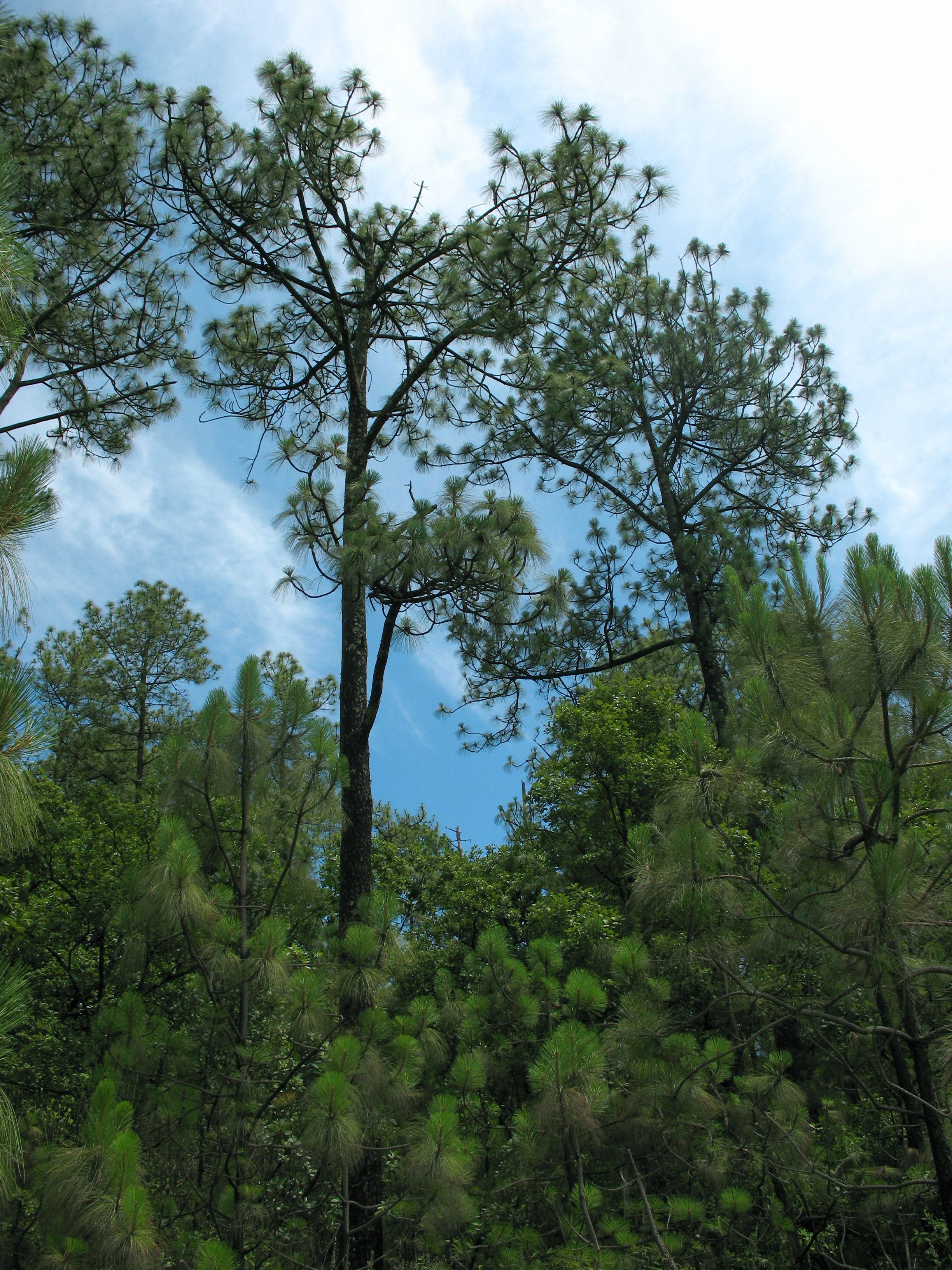 Pinus devoniana forest, Venustiano Carranza, Nayarit, Mexico, 21°29'19"N 104°59'37"W, 1580m altitude.